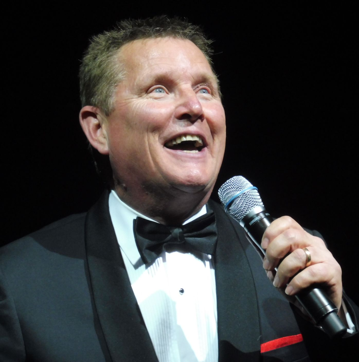 Australian actor and singer Tom Burlinson, 2018